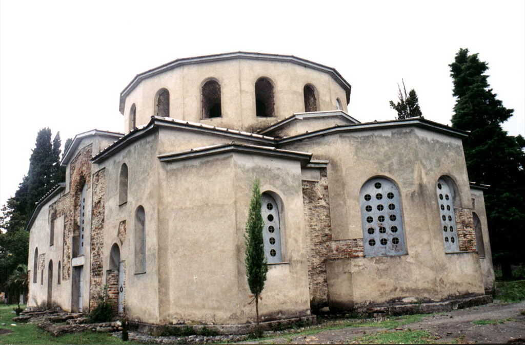 Cathedral in the village of Dranda, Abkhazia